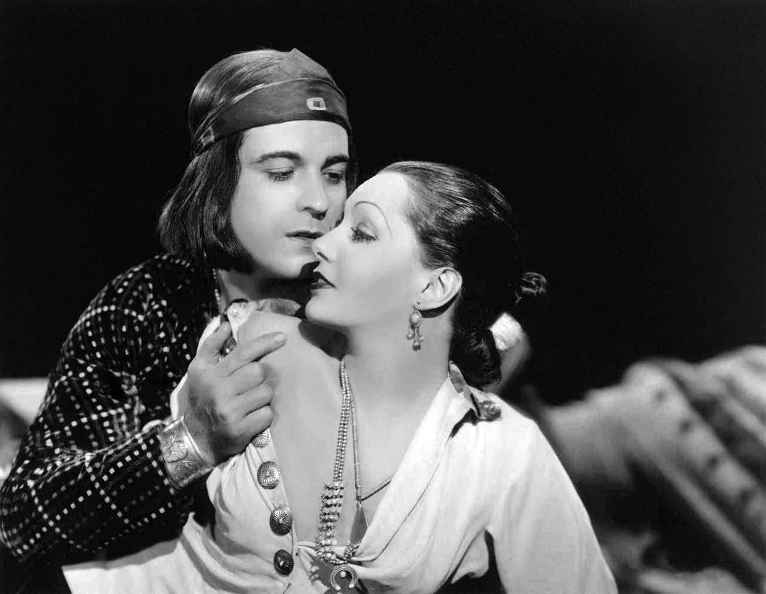 Cropped screenshot of Ramon Novarro and Lupe Velez from the film Laughing Boy